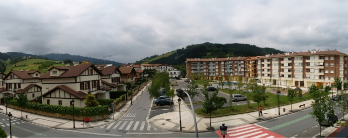 Lazkao, Spain: year 2008